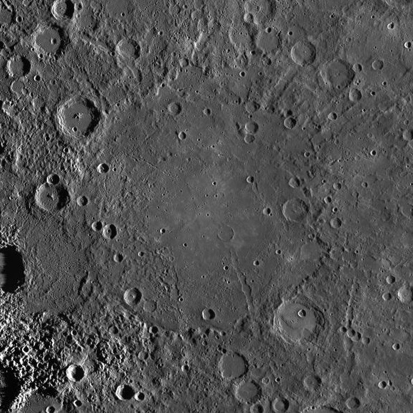 Sanai crater, on Mercury. MESSENGER Wide Angle Camera mosaic. Image is approximately 574 km wide.